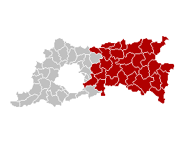 Location of Arrondissement Leuven in Belgium.